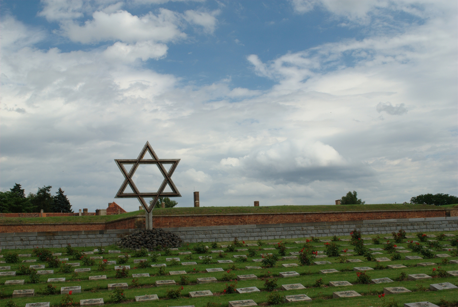 National Cemetery Terezin. Jewish Cemetery in front of the Small Fortress Terezin (Czech Republic). Terezin was a Concentration Camp of the Nazis from 1941 to 1945. The Small Fortress was used as a Gestapo prison where mainly political prisoners were kept under inhuman conditions.